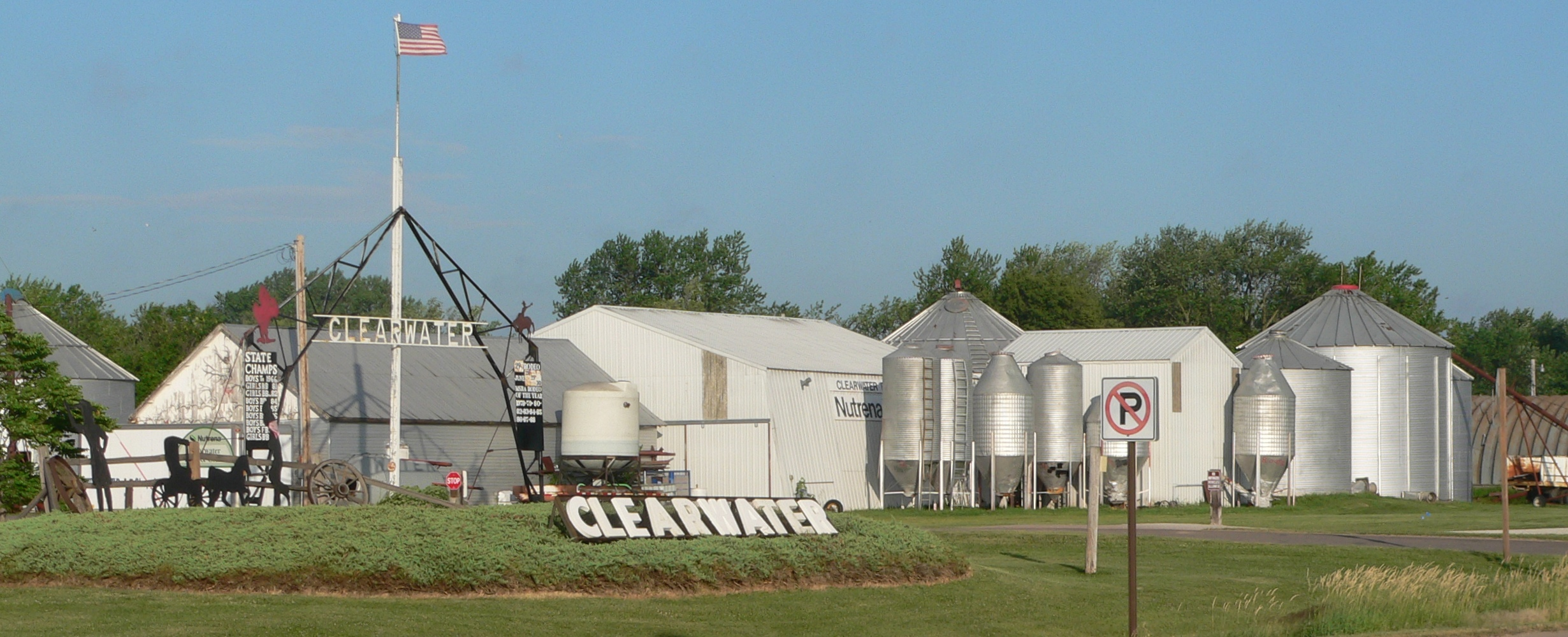 Grain bins and welcome signs at north edge of Clearwater, Nebraska, on south side of U.S. Highway 275.